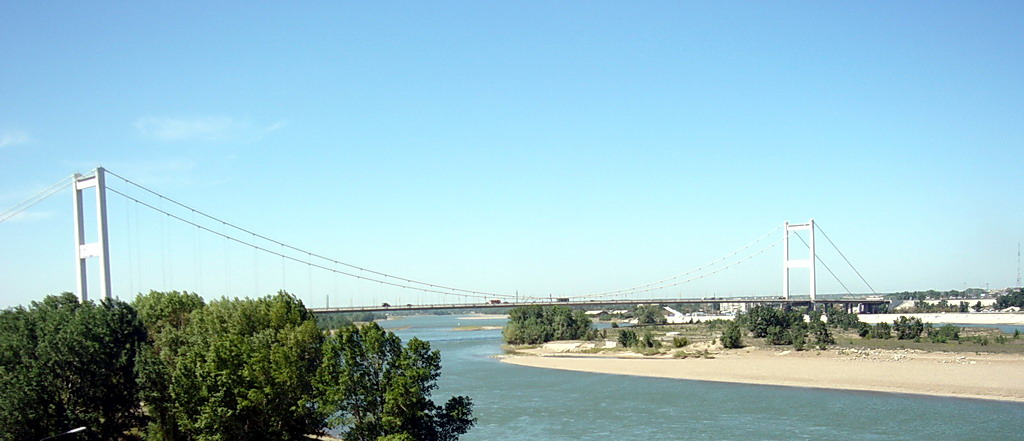 Semipalatinsk Bridge, photograph by Evgeny Gerashchenko.